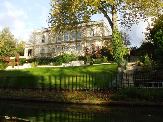 Another Regent's Park house. Another one of the grand houses in Regent's Park on the other side to us on the banks of the Grand Union - Regent's Canal.